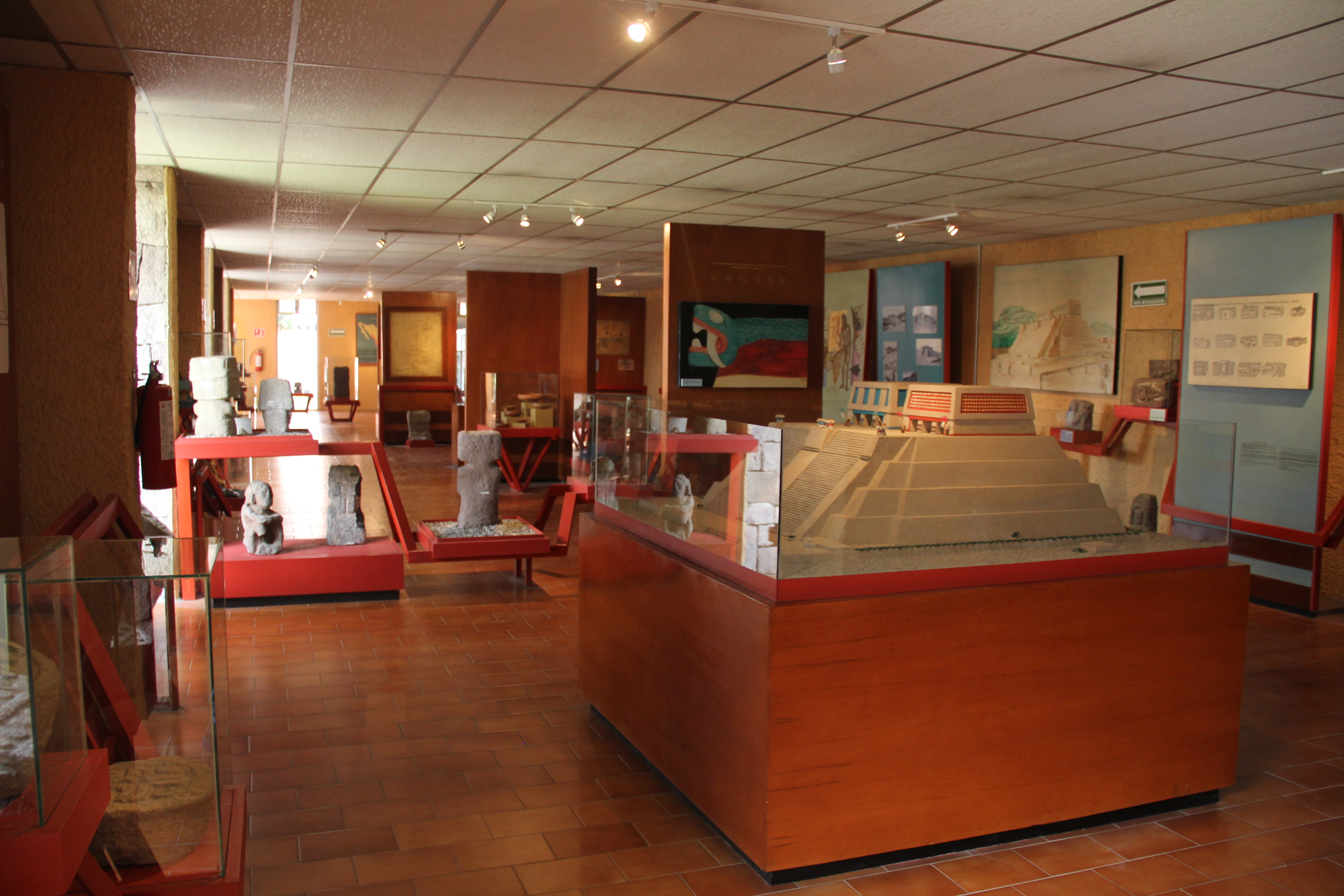 Museum Aztec Mexico Tlalnepantla Prehispanic Archaeology Pyramid Tenayuca